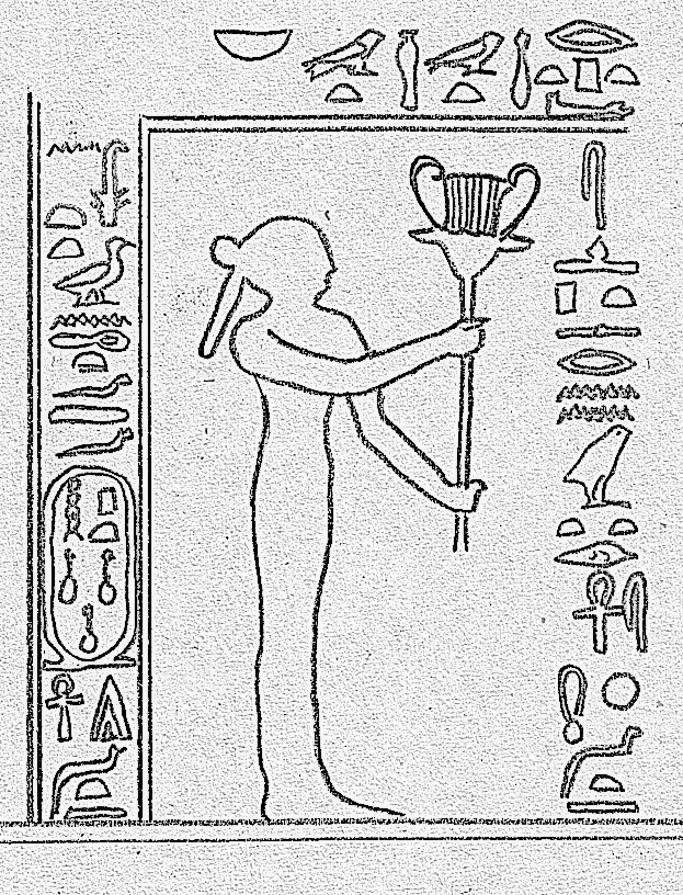 Drawing of a relief depicting the ancient Egyptian princess Neferutpah, daughter of pharaoh Amenemhat III. This is part of a much larger relief in the temple of Medinet Madi, depicting Amenemhat III facing the cobra-goddess Renenutet, with a much smaller figure of Neferuptah (this one) between the two. Reign of Amenemhat III, late 12th Dynasty, Middle Kingdom. Based on a reconstruction by Edda Bresciani & Antonio Giammarusti, in: I templi di Medinet Madi nel Fayum (2012), p. 86